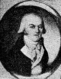 Portrait of Heinrich Möller. Member of the Hanseatic League at Lisbon.